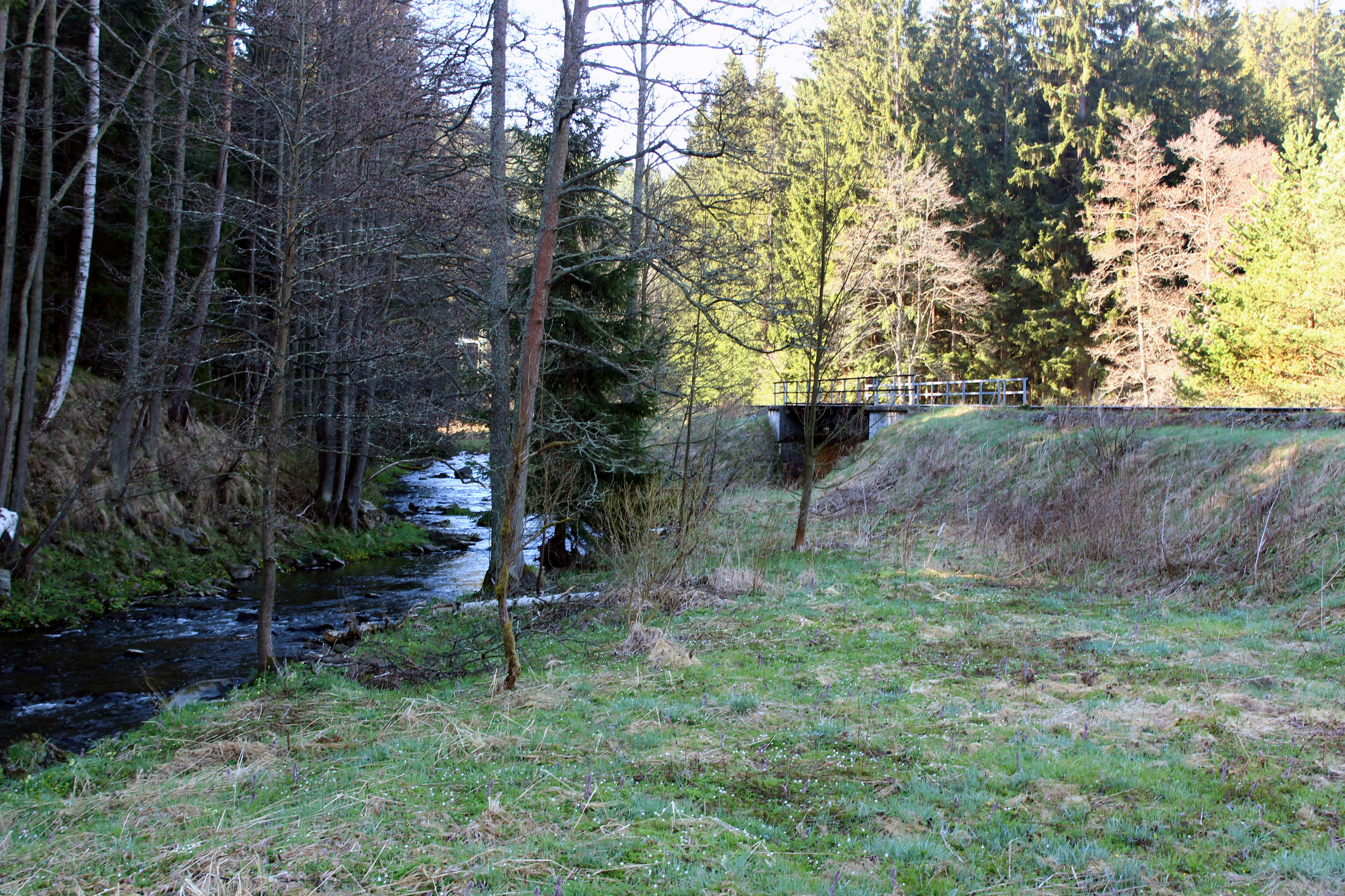 Confluence of Teplá River with Pramenský Creek by Bečova nad Teplou, Czech Republic